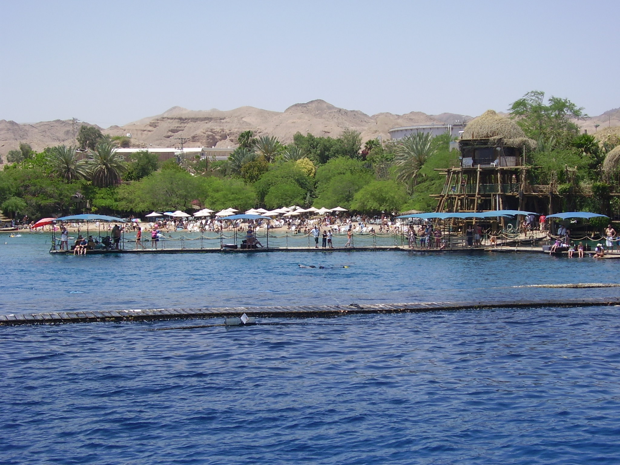 dolphin reef in eilat